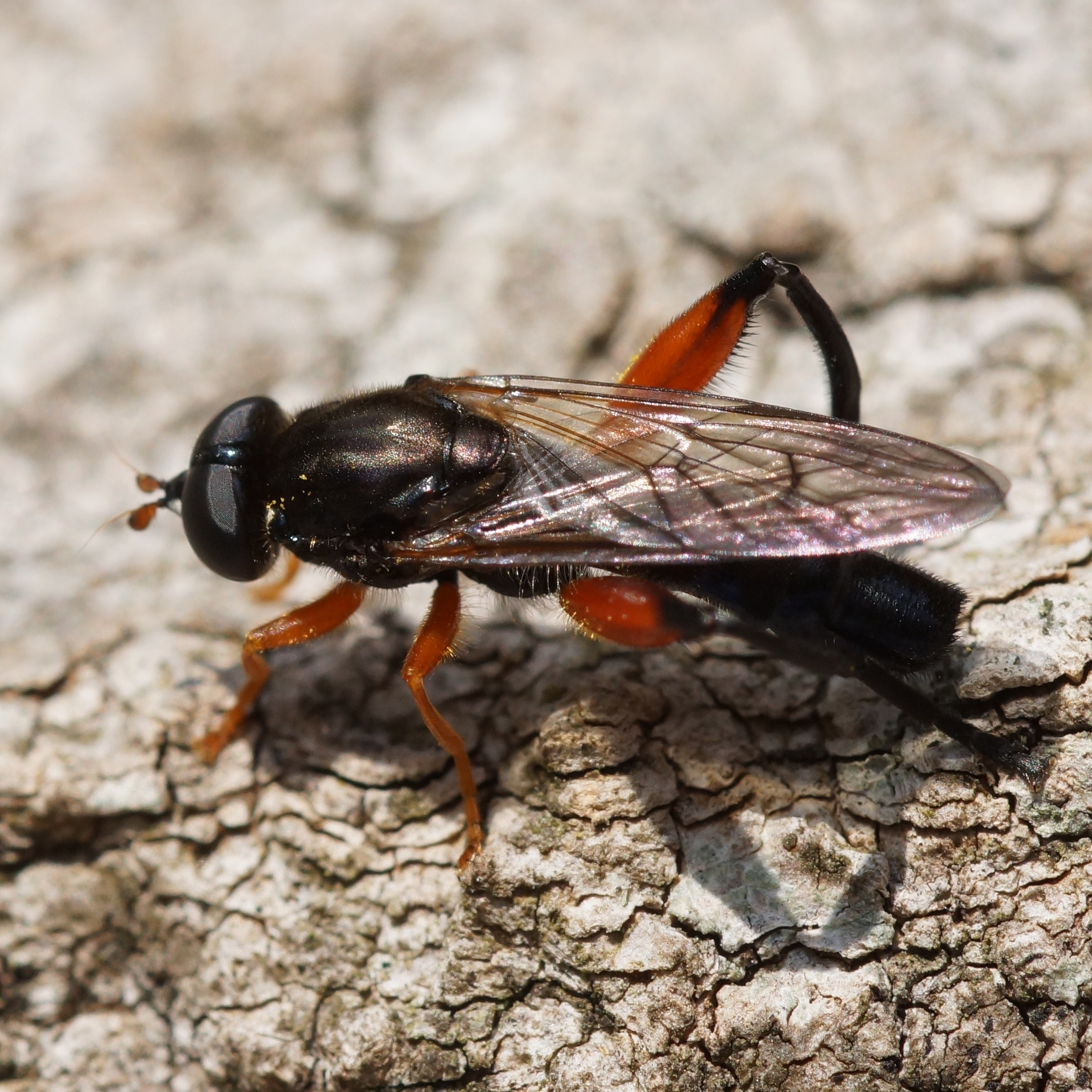 Chalcosyrphus valgus (male). Picture taken in Skåne, Sweden.